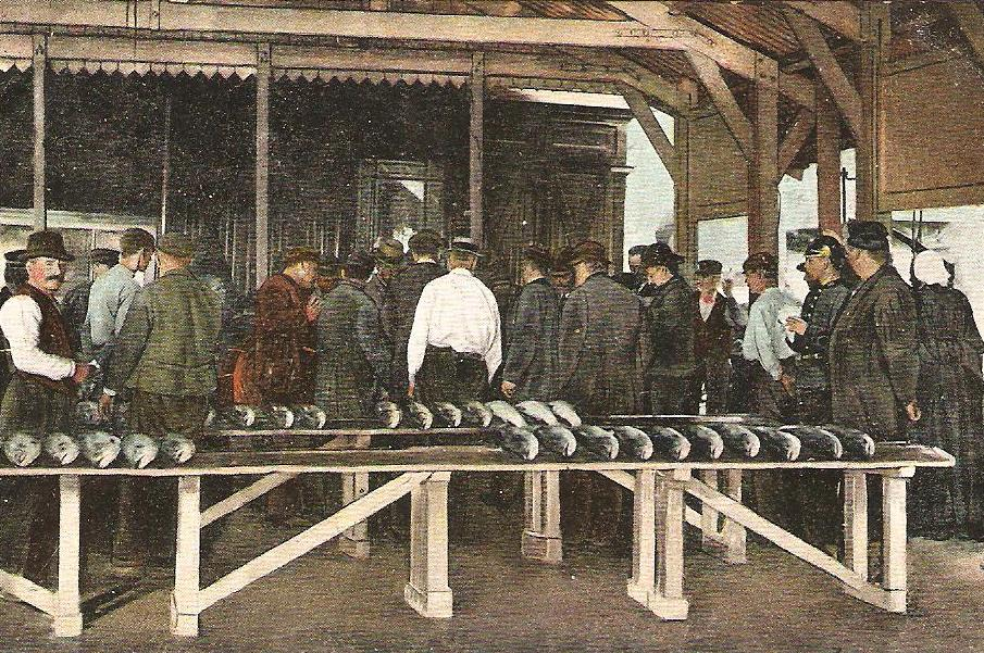 Salmontrade Rotterdam 1905